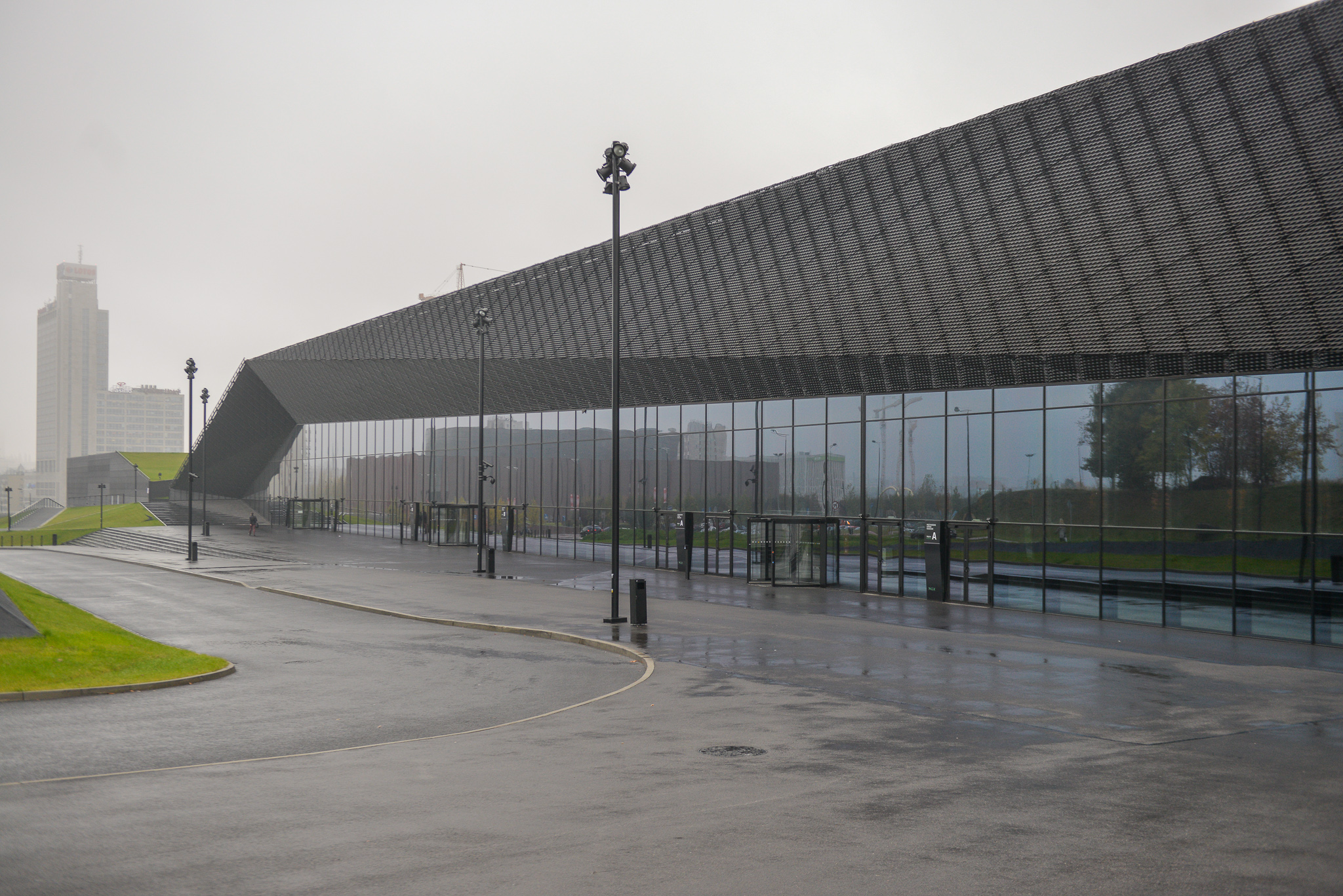 Katowice International Conference Centre, view from museum side